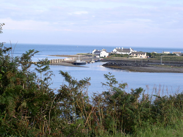 Drummore Harbour, near to Drummore, Dumfries And Galloway, Great Britain. The most southerly harbour in scotland